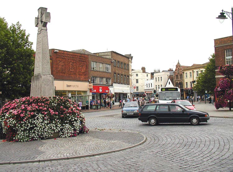 The War Memorial and town centre, Taunton, Somerset, England.